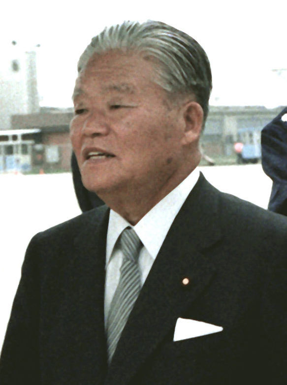 Japanese Prime Minister Masayoshi Ōhira (大平正芳, 1910–80, in office 1978–80) walks towards his limo upon his arrival in the United States for a visit at Andrews Air Force Base.